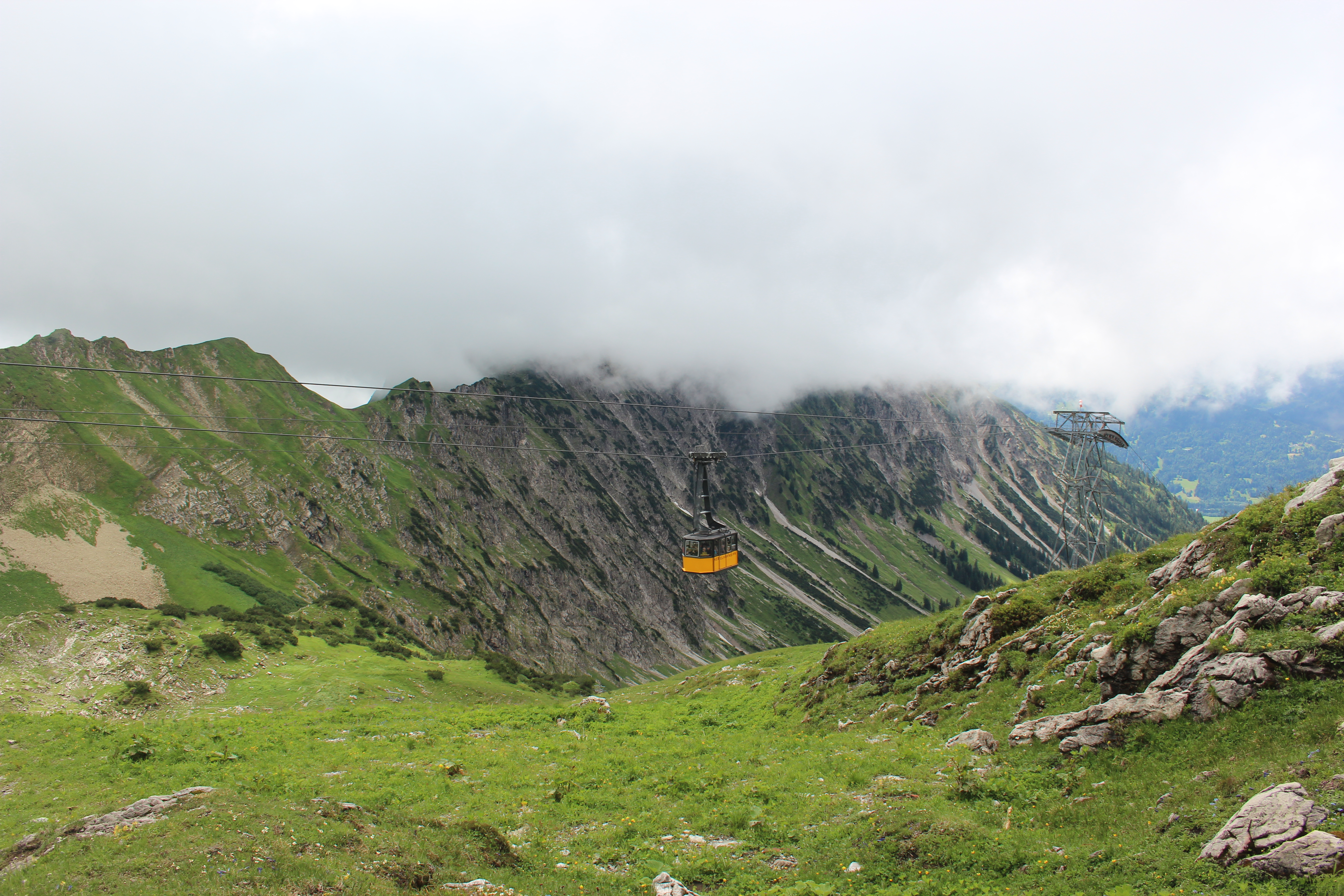 Nebelhornbahn, Nebelhorn Mountain. In Oberstdorf, Germany. At summertime, so not at ski season.